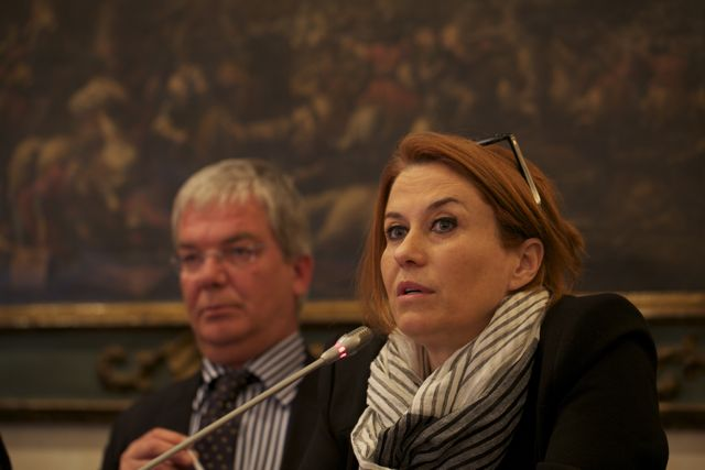 Angelo Agostini and Monica Maggioni at the International Journalism Festival in Perugia